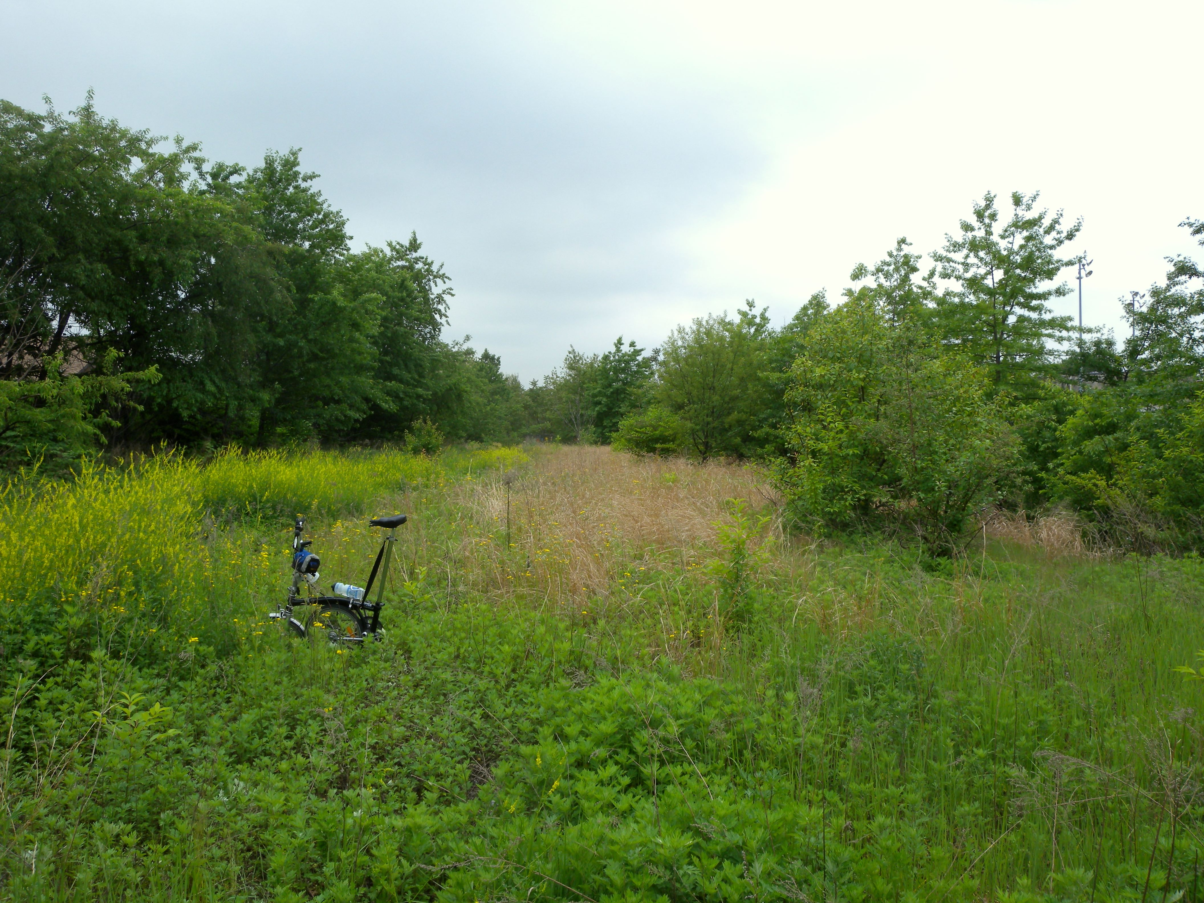 Looking west along the former trackbed on a cloudy afternoon.